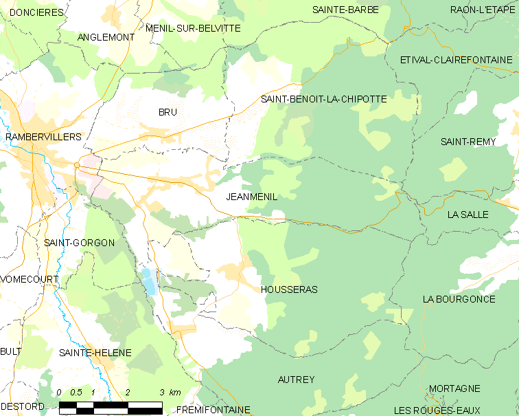 Map of French municipality Jeanménil